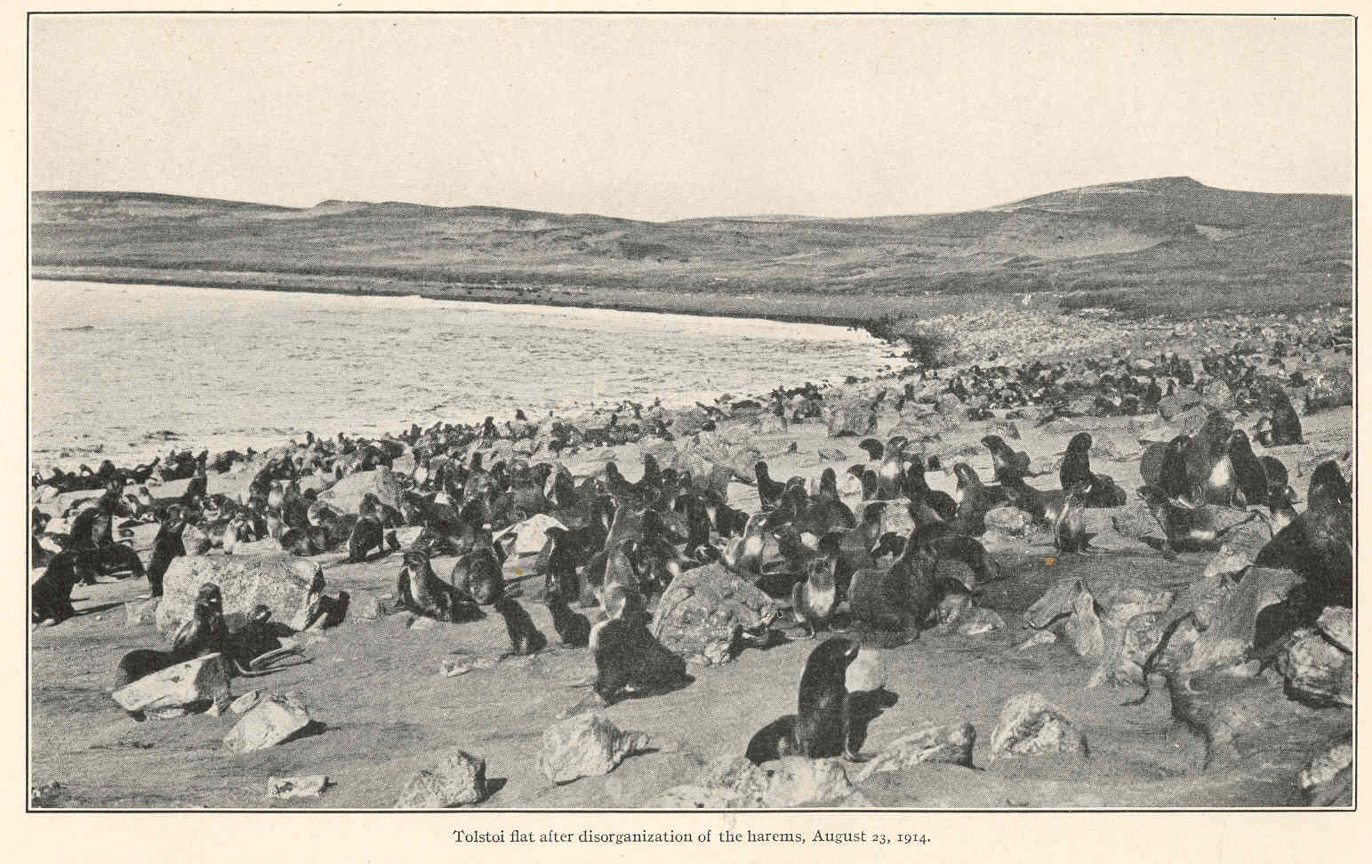 Tolstoi flat after disorganization of the harems, August 23, 1914 Subject: Northern fur seal, Saint Paul Island (Alaska) Geographic Subject: United States--Alaska--Saint Paul Island Tag: Aquatic Mammals